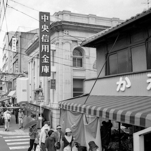 Camera:CANON L2 Lens:Voigtlander SUPER WIDE-HELIAR 15mm F4.5 Aspherical Film:ILFORD XP2 SUPER(ISO 50) ■京都中央信用金庫東五条支店 設計:吉竹長一 建設地:京都府京都市東山区五条大橋東入ル 竣工:1924年 ■The Kyoto ChuoShinkin Bank Higashigojo Branch Designer:Choichi Yoshitake Place:Higashiyama-ku,Kyoto-shi,Kyoto-fu,Japan Completion Year:1924